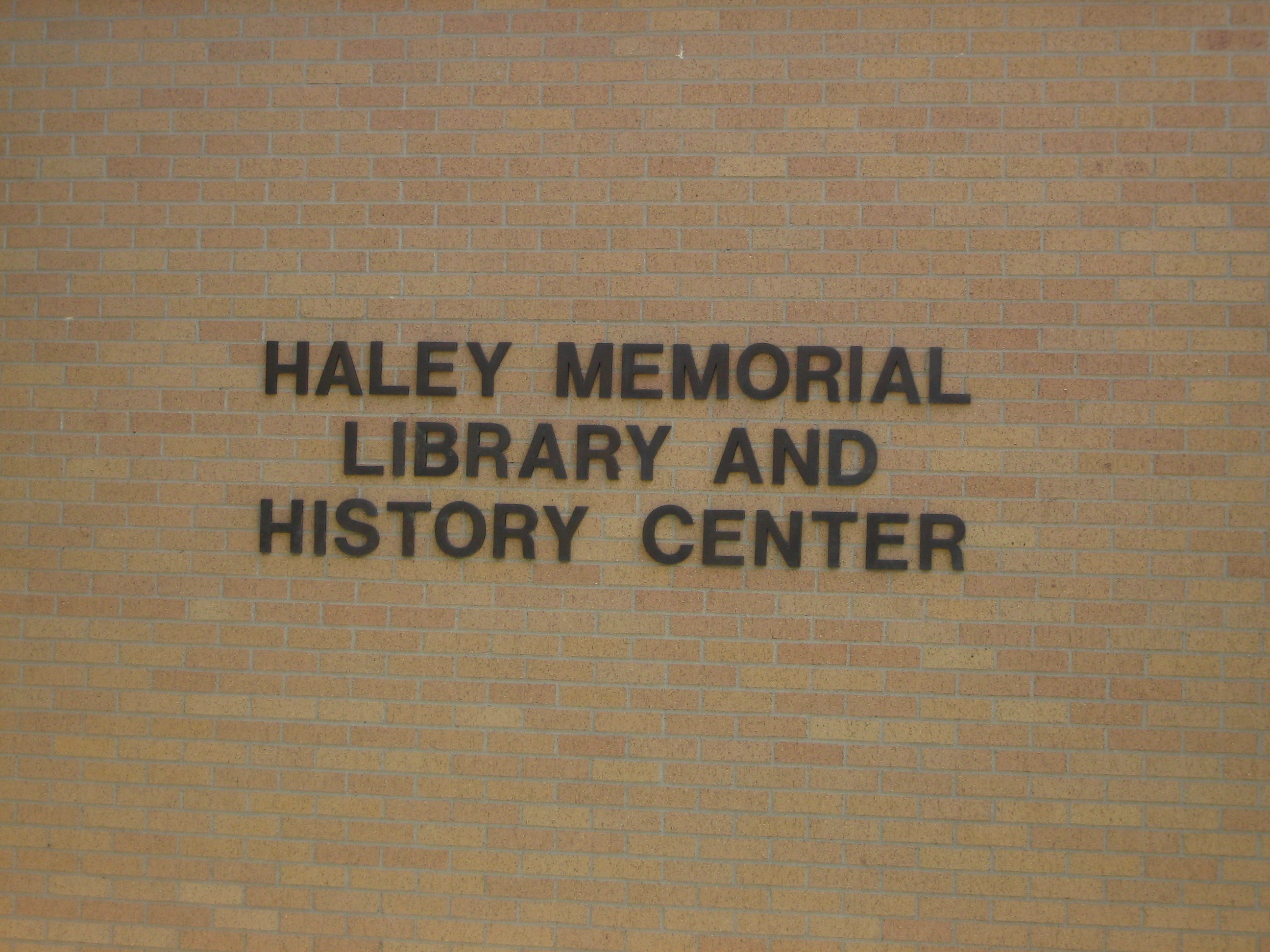 I took photo on July 10, 2008.Billy Hathorn (talk) 03:34, 27 July 2008 (UTC)